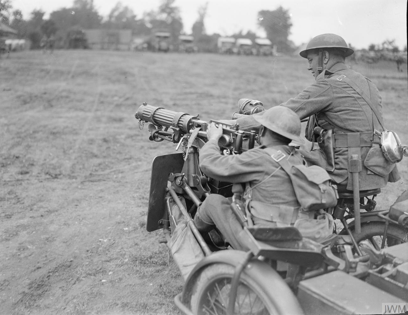 The British Army on the Western Front, 1914-1918 Motor machine guns - gunners feeding a new ammunition belt into a gun. Dieval, 22 June 1918.